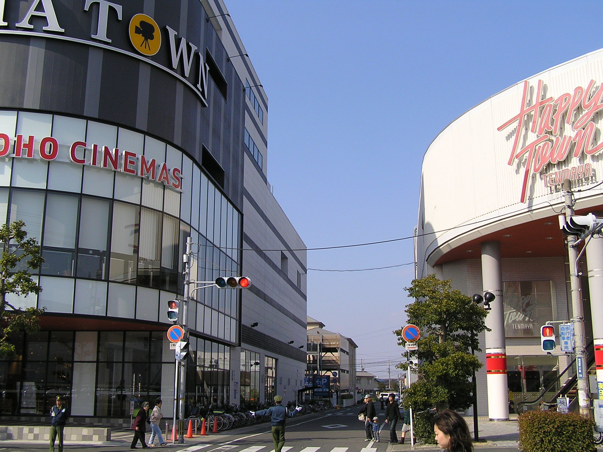 Tenmaya HappyTown and CinemaTown Konan